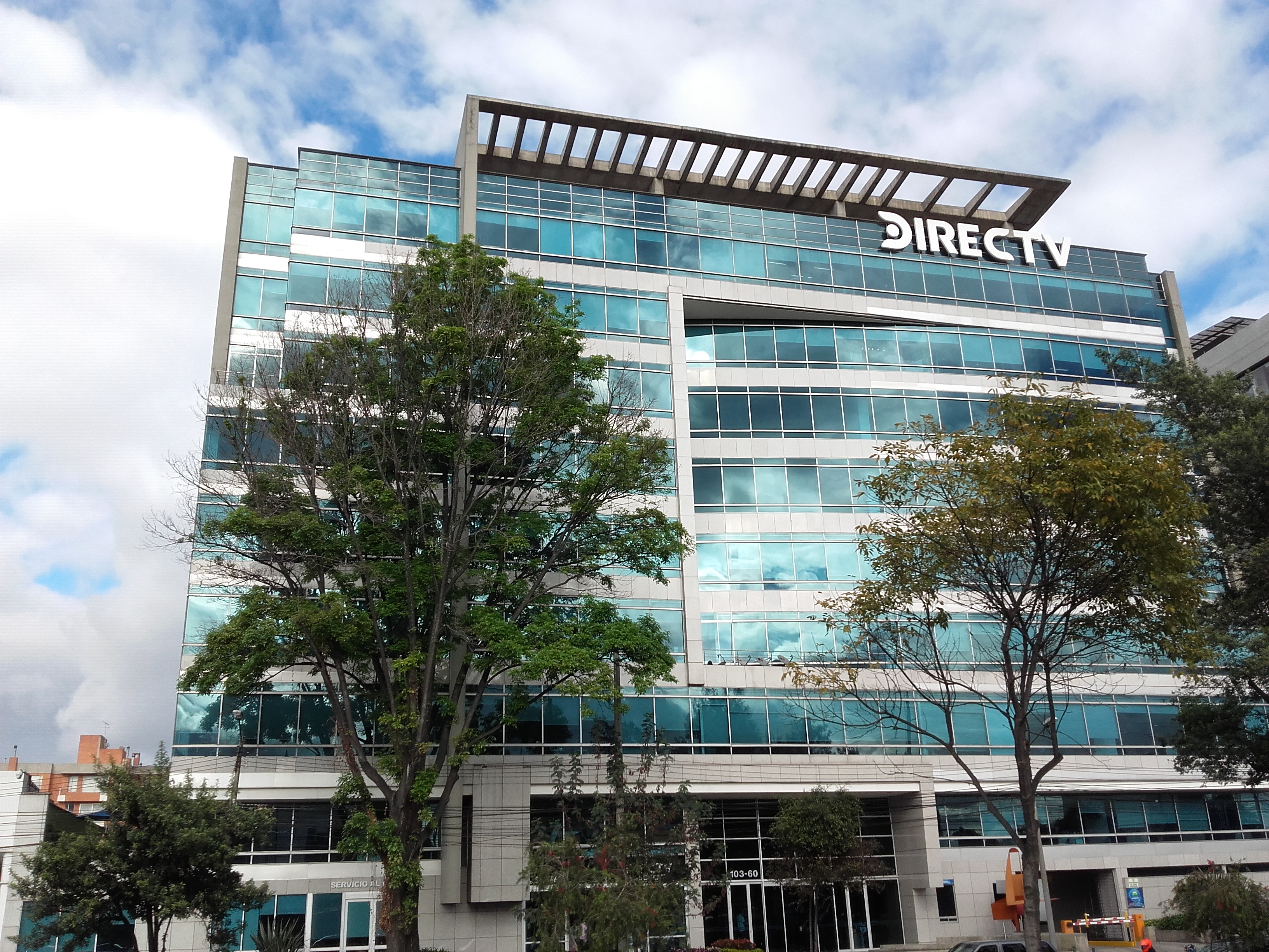 DirecTV Colombia's Headquarters in Bogotá, Colombia since May 2018.